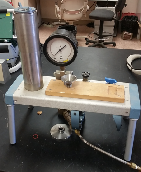 Another common model for pressure bombs. This model uses an analog gauge rather than digital. The top of the canister can be removed and be placed in the groove on the wooden board for sample preparation. The larger steel cylinder is designed for small stems and branches to fit as well as leaves.